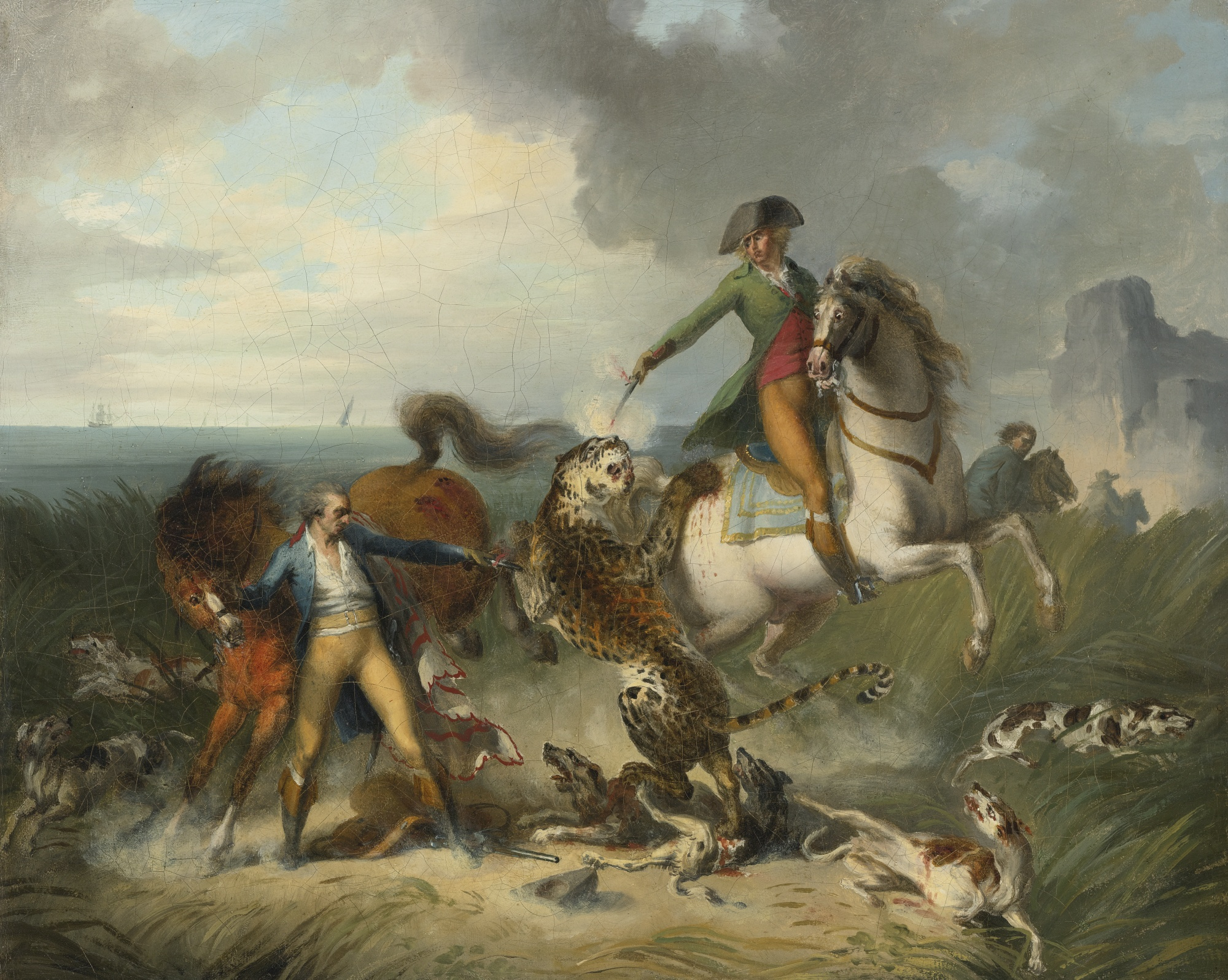 The Prince of Nassau and the Chevalier d'Oraison fighting a jaguar on the coast of Argentina